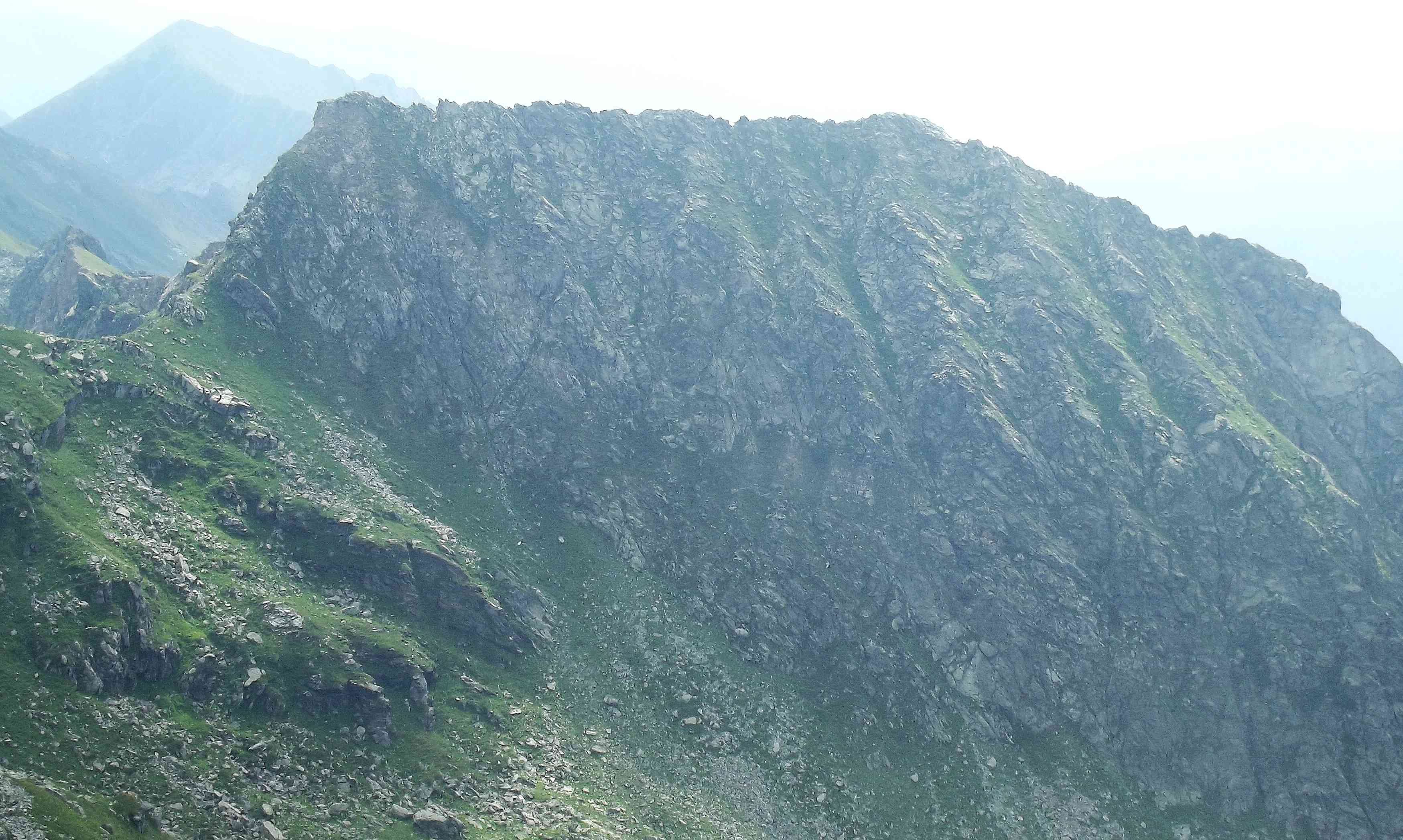 Punta Croset (Graian Alps, TO, Italy) as seen from Punta del Rous